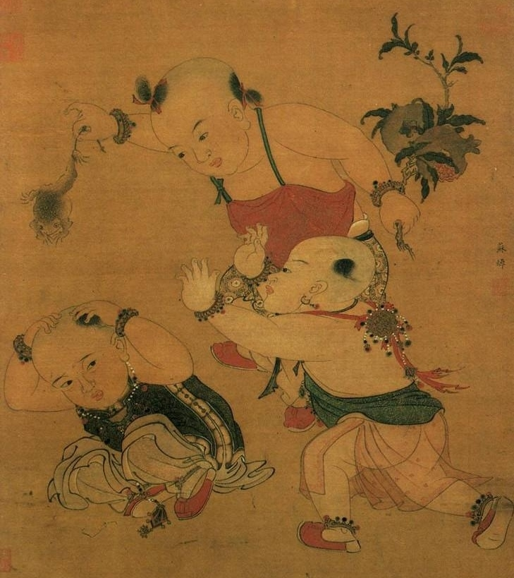 Children playing in Double Fifth